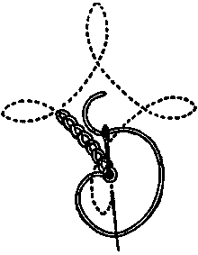 Chain stitch, from Samplers and Stitches, a handbook of the embroiderer's art by Mrs Archibald Christie, London 1920/New York, 1921